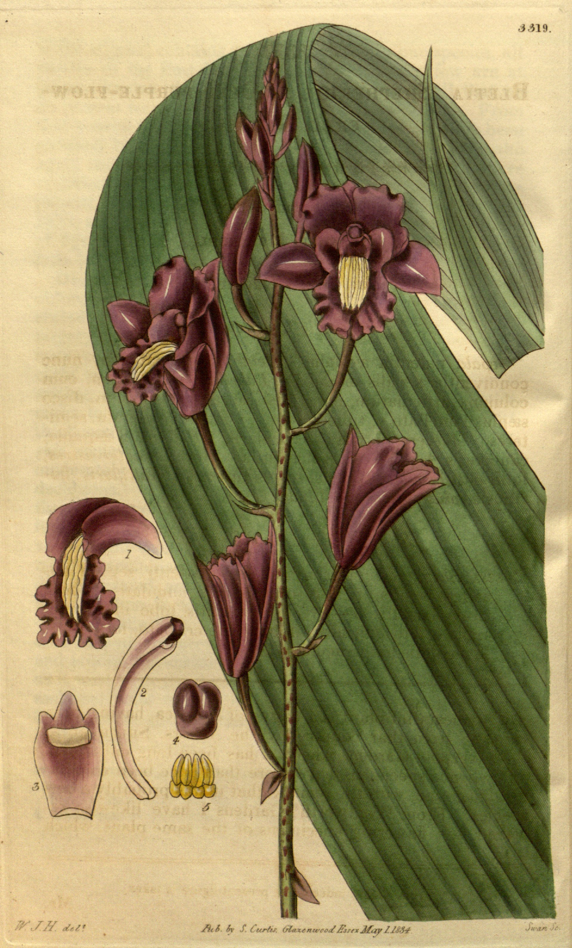 Illustration of Bletia florida (as syn. Bletia shepherdii)